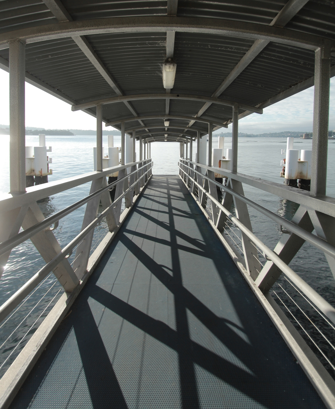 Kirribilli Ferry Wharf gangplank